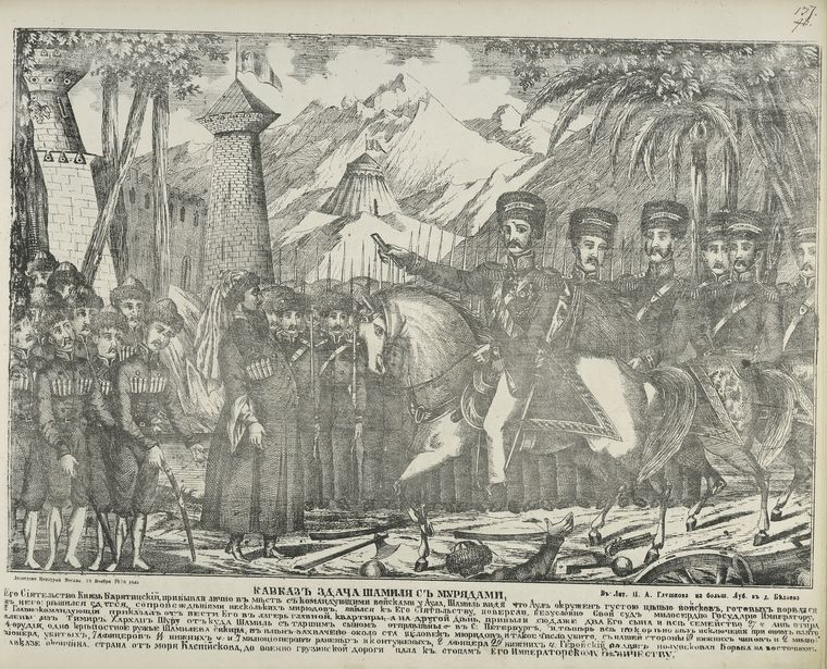 Caucasus. The Surrender of Shamil. (Kavkaz. Sdacha Shamila.)